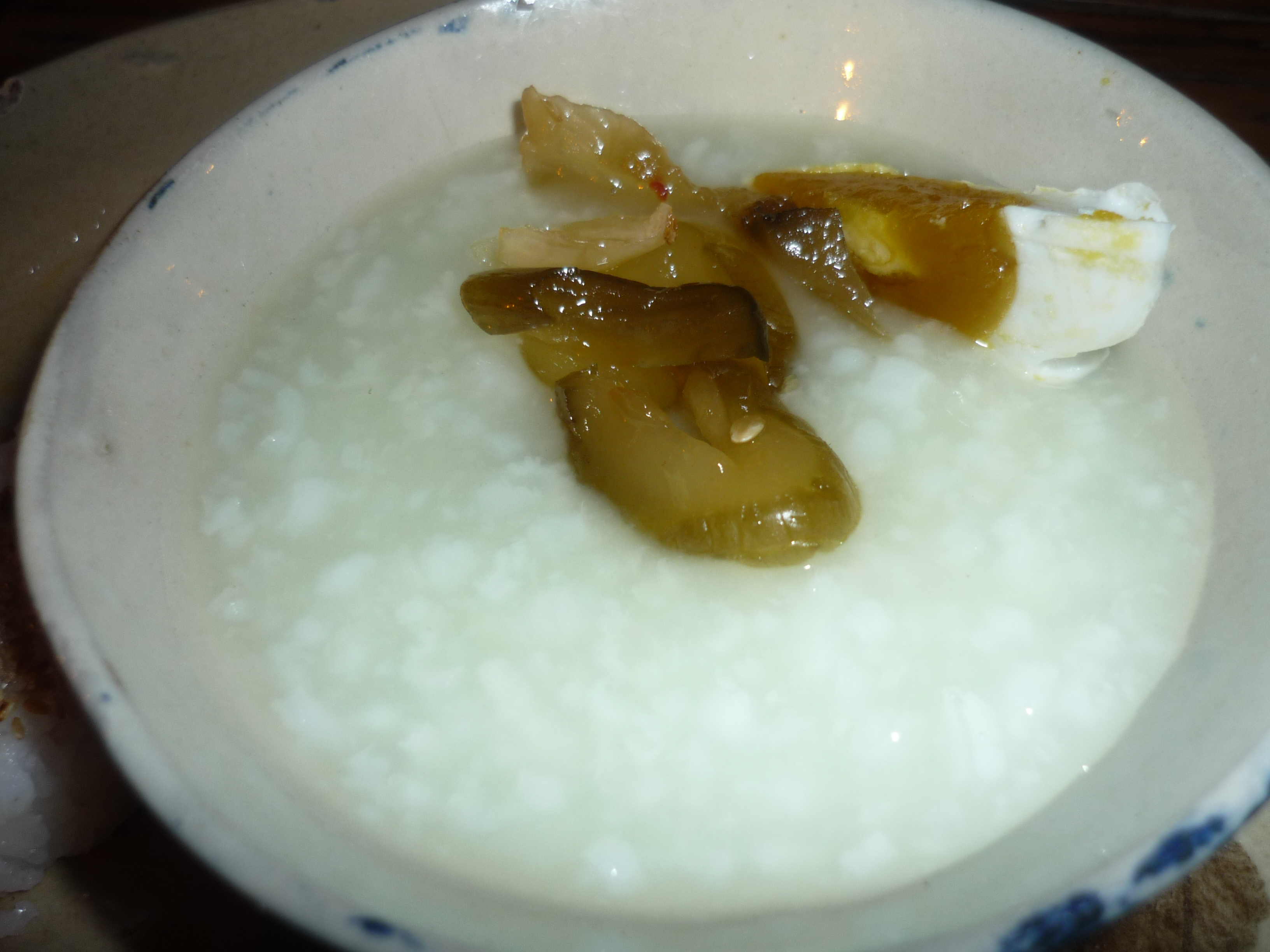 Vietnamese porridge and salted egg